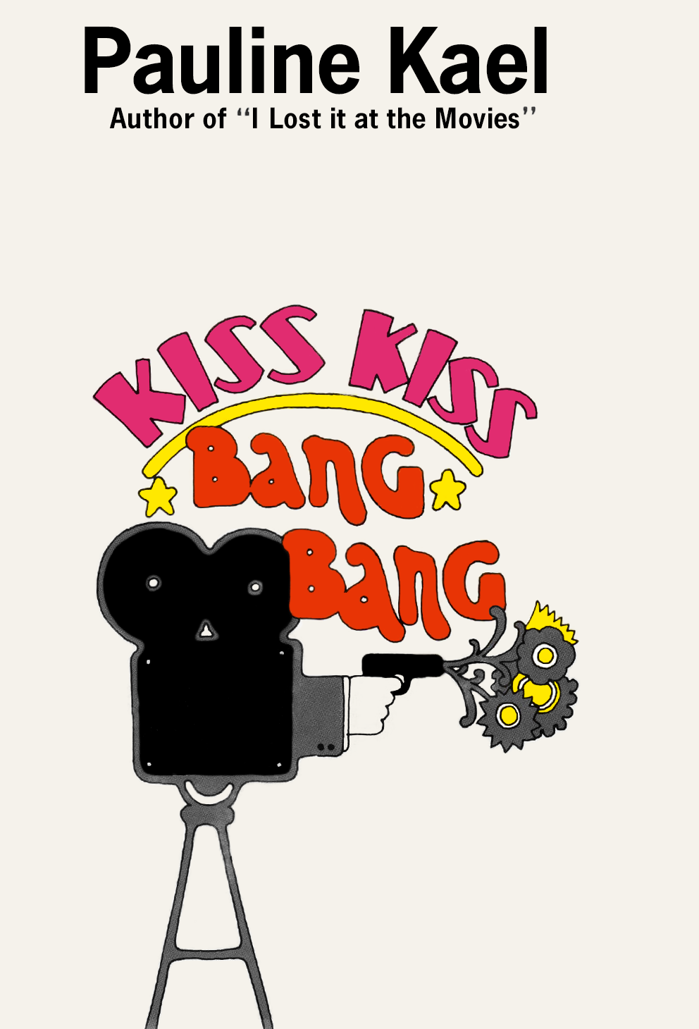 First-edition dust jacket cover of the book Kiss Kiss Bang Bang by American film critic Pauline Kael.